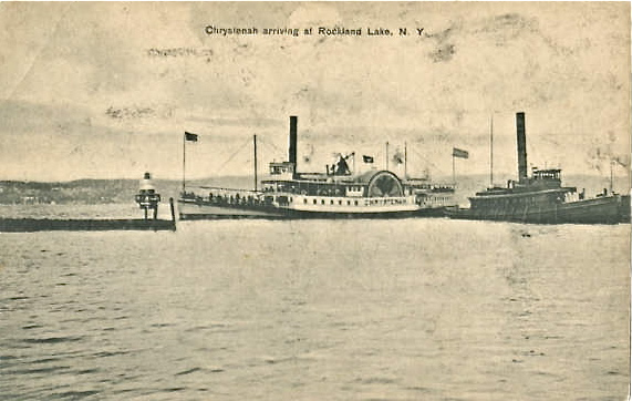 Chrystenah, Hudson River steamboat in operation from 1866 to 1919. Photograph from an old postcard.